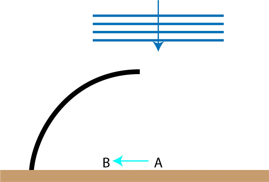 Breking waves cause significant water level rise in point A. In point B there is no wave breaking, and also not set-ip. Conseequently the waterlevel in A is higher than in B, causing a current into the harbour.